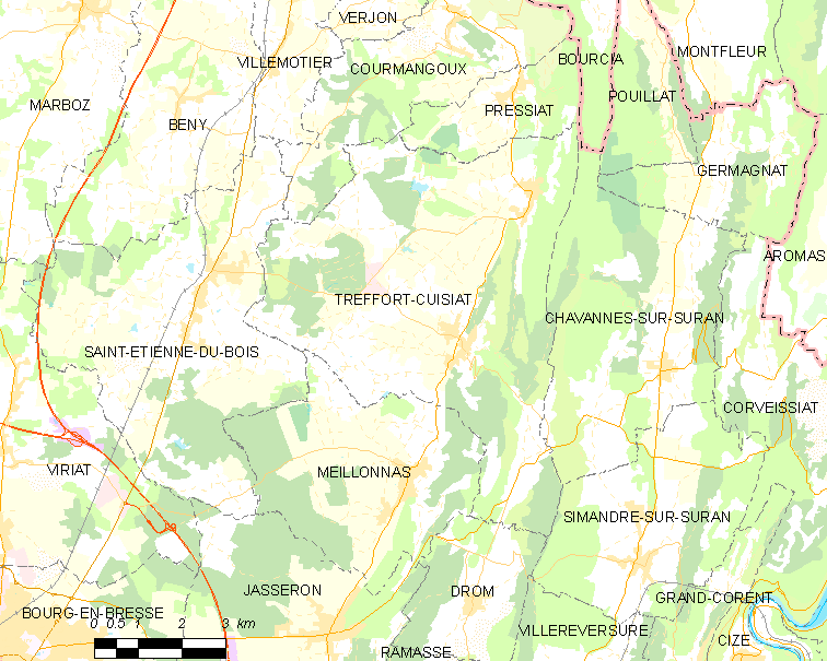 Map of French commune: Treffort-Cuisiat Map commune FR insee code 01426.png